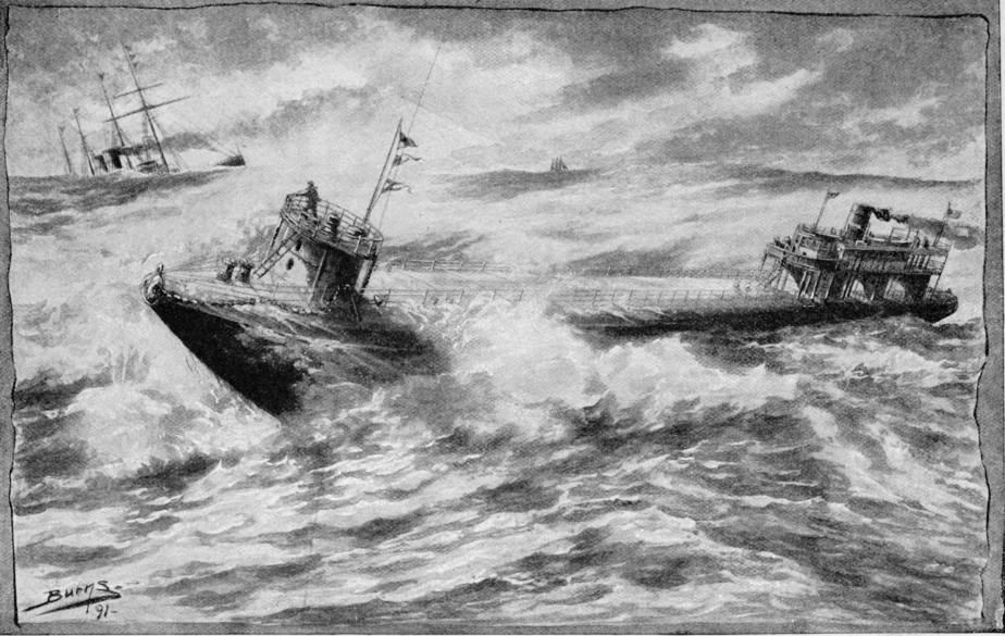 Illustration of whaleback freighter in storm. 1891